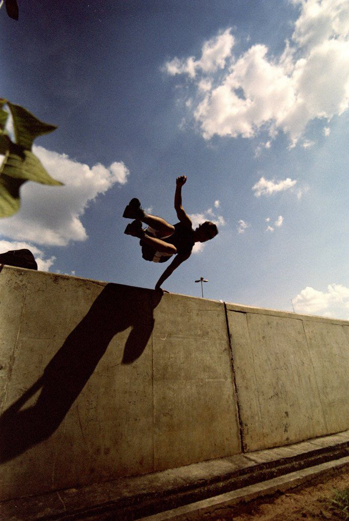 Parkour